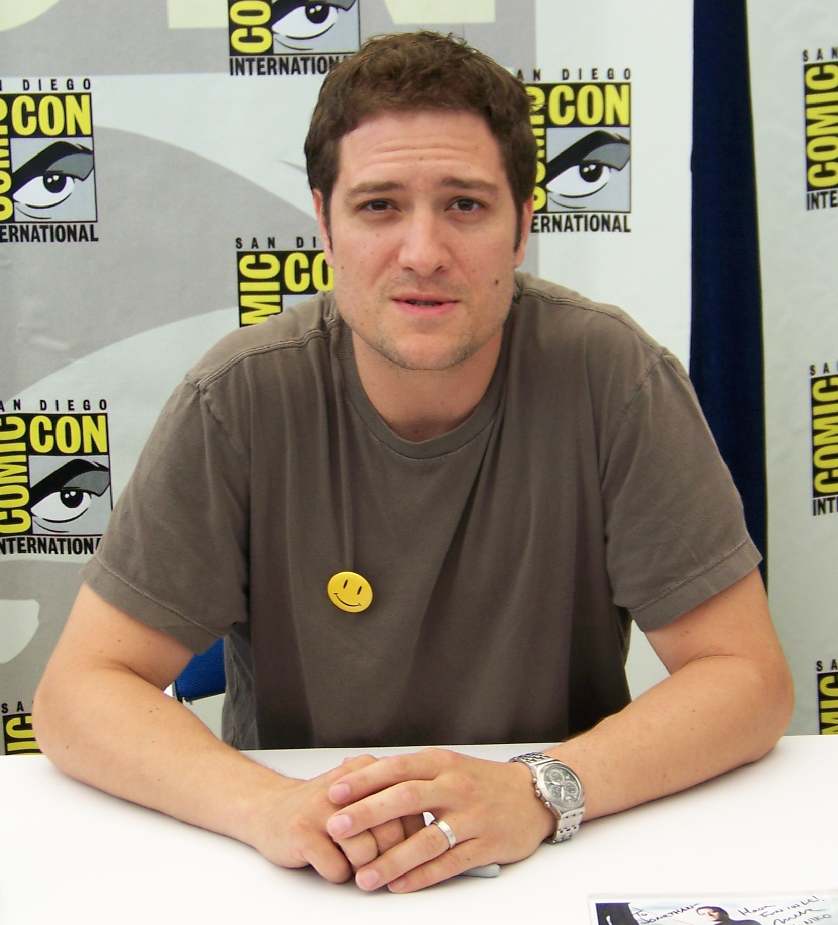 Actor Michael Hollick at the 2008 Comic-Con convention in San Diego, California.